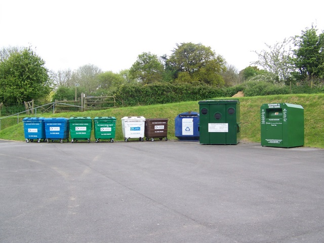 Recycling area, Witchampton The site is in the car park of the village hall.